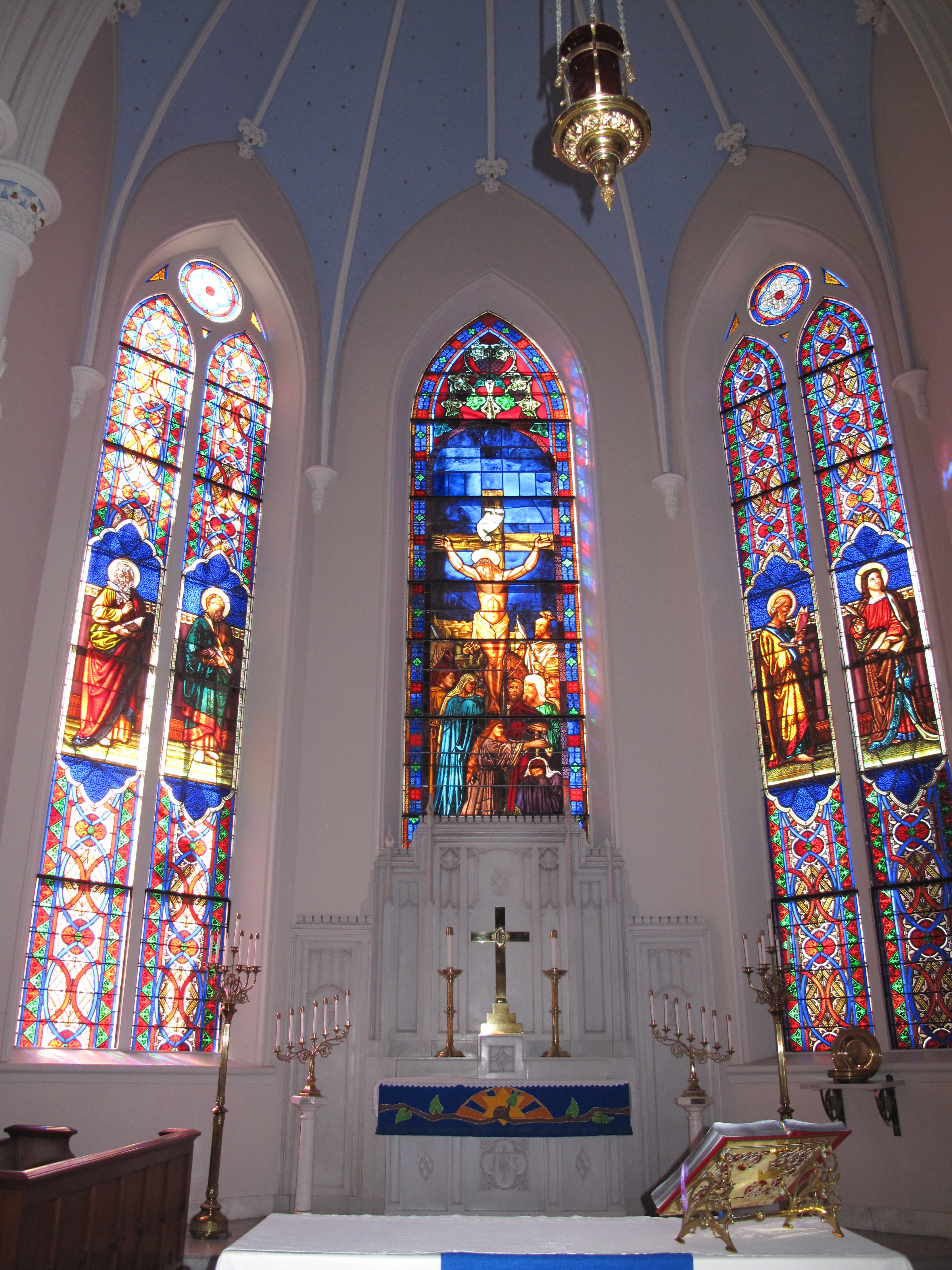 The original 1872 Henry E. Sharp and Son chancel windows of the Crucifixion and the four Evangelists. The white marble altar was installed in 1925. Above the chancel is a ribbed and groin-arched ceiling of azure blue studded with stars.